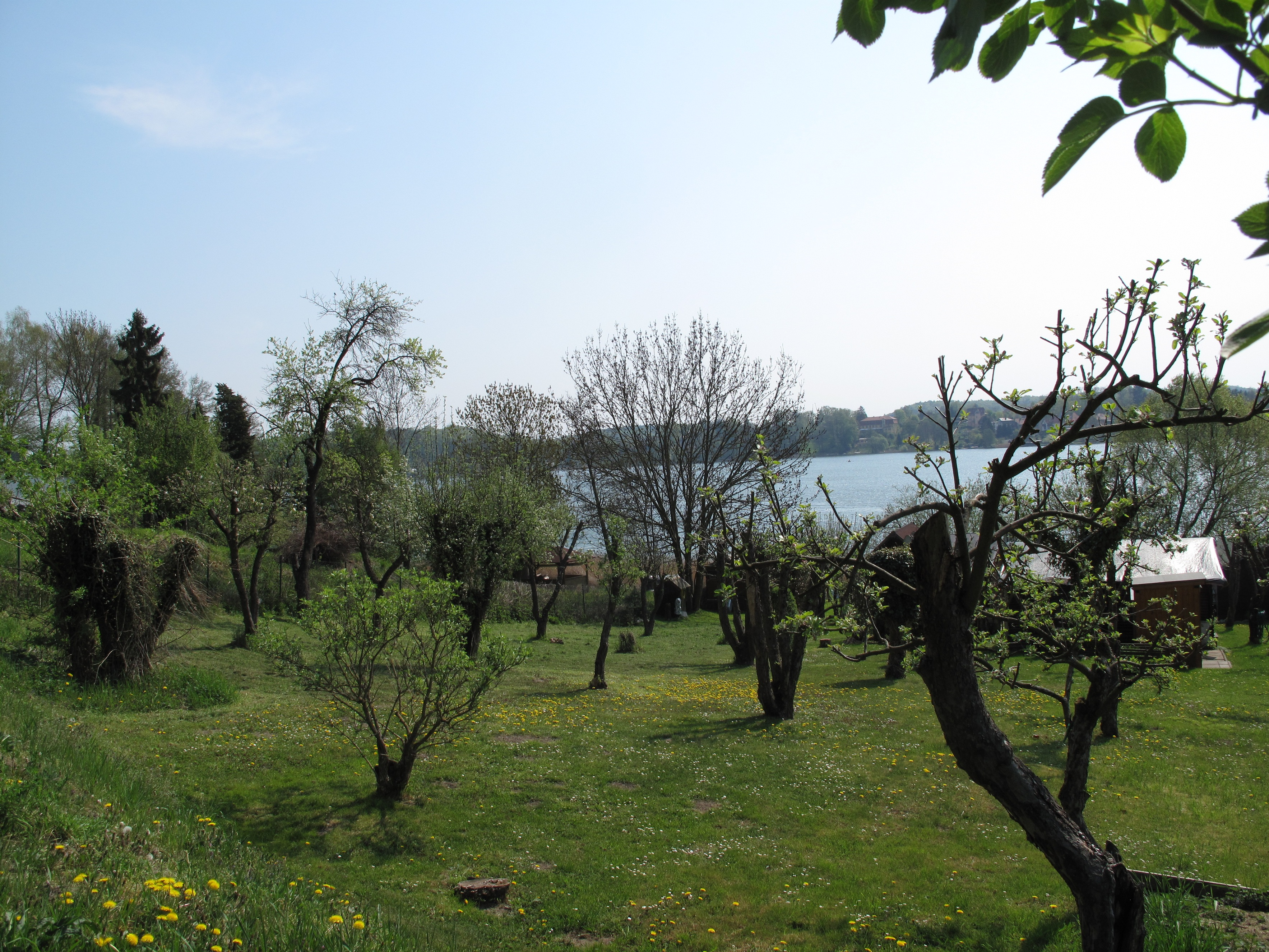 The Panoramaweg is a part of the approximately 7,5 kilometres long walking path around the Schermützelsee. The Schermützelsee is a lake in Buckow, District Märkisch-Oderland, Brandenburg, Germany. The lake covers 137 hectare and is the largest water in the hill country „Märkische Schweiz“ and in the Märkische Schweiz Nature Park.